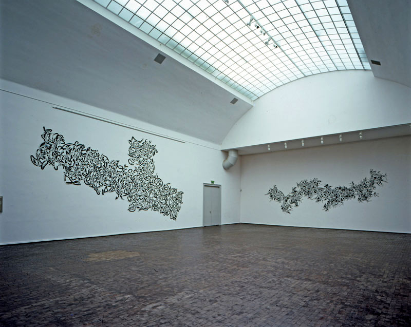 2001 - View of the exhibition "Gianni Asdrubali. Dynamische Texturen im Raum" in the institute Mathildenhöhe Darmstadt.